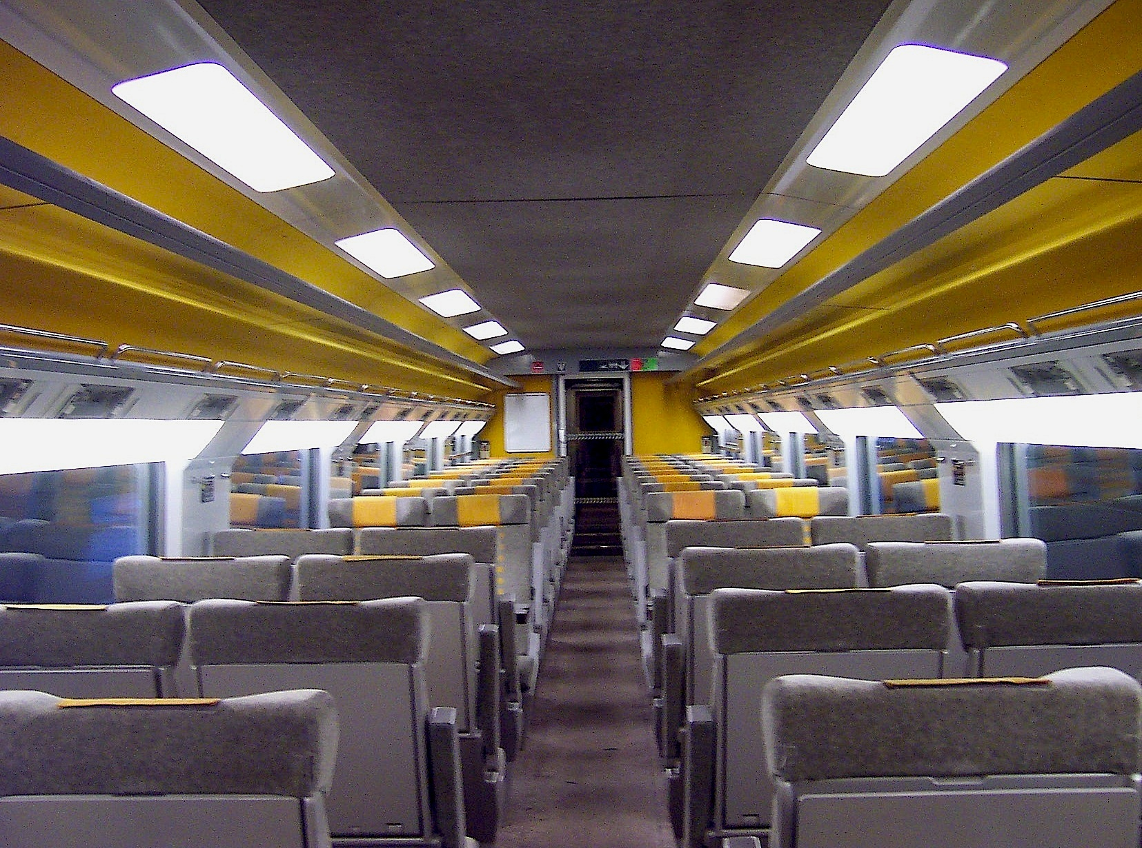 The original interior of one of the Standard Class carriages aboard the eurostar Class 373 - these are formed at both outer ends of the train and are sandwiched between a Class 373 Power Car and a Cafe/Bar buffet carriage.